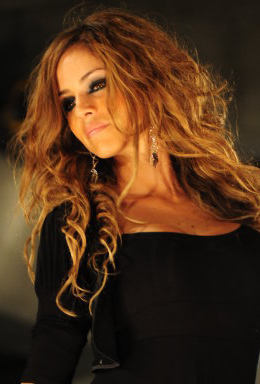 Model and actress, Maricris Rubio, on 21 September 2010.